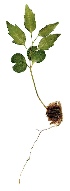 Campsis radicans seedling